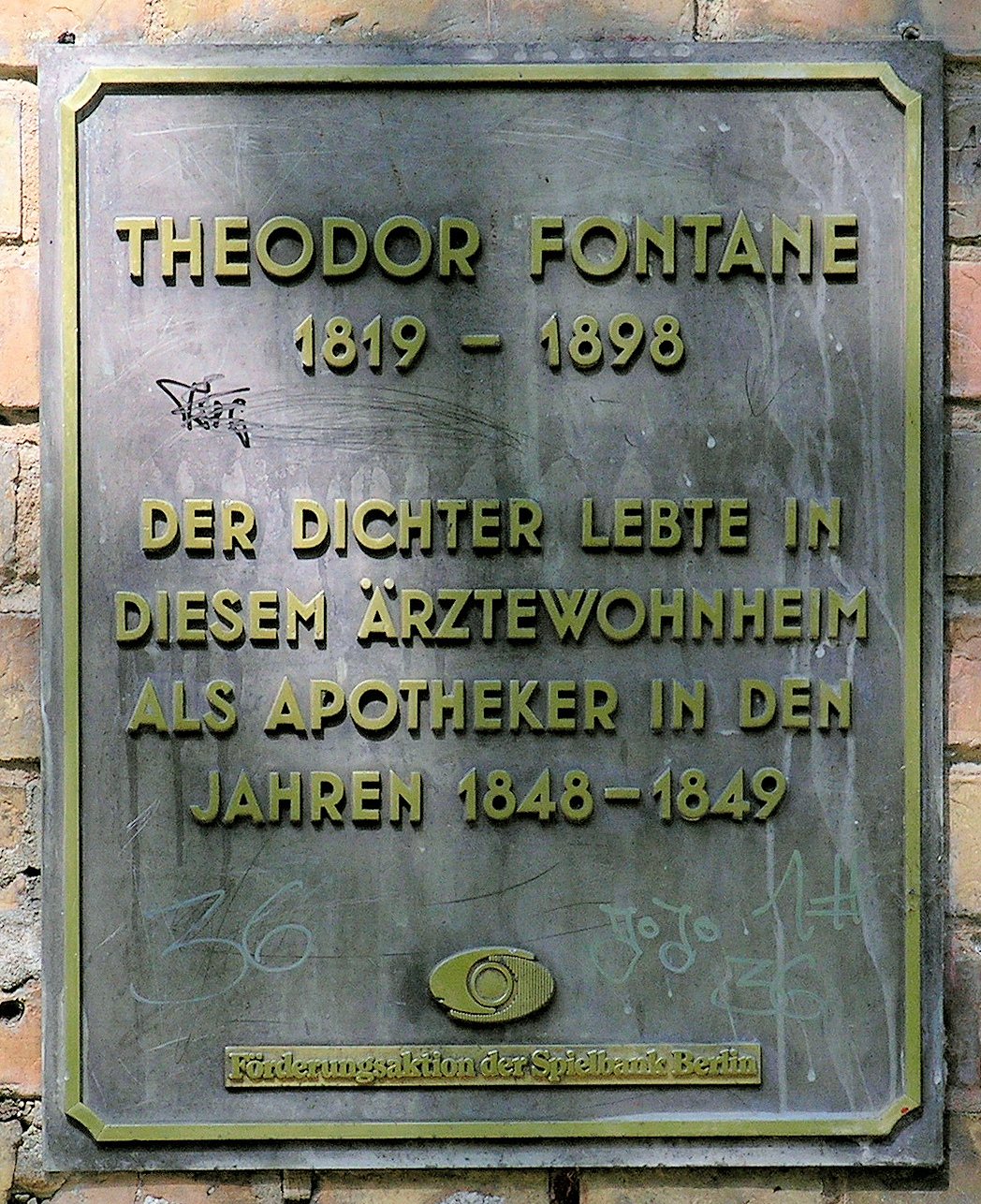 Memorial plaque, Theodor Fontane, Mariannenplatz 1-3, Berlin-Kreuzberg, Germany